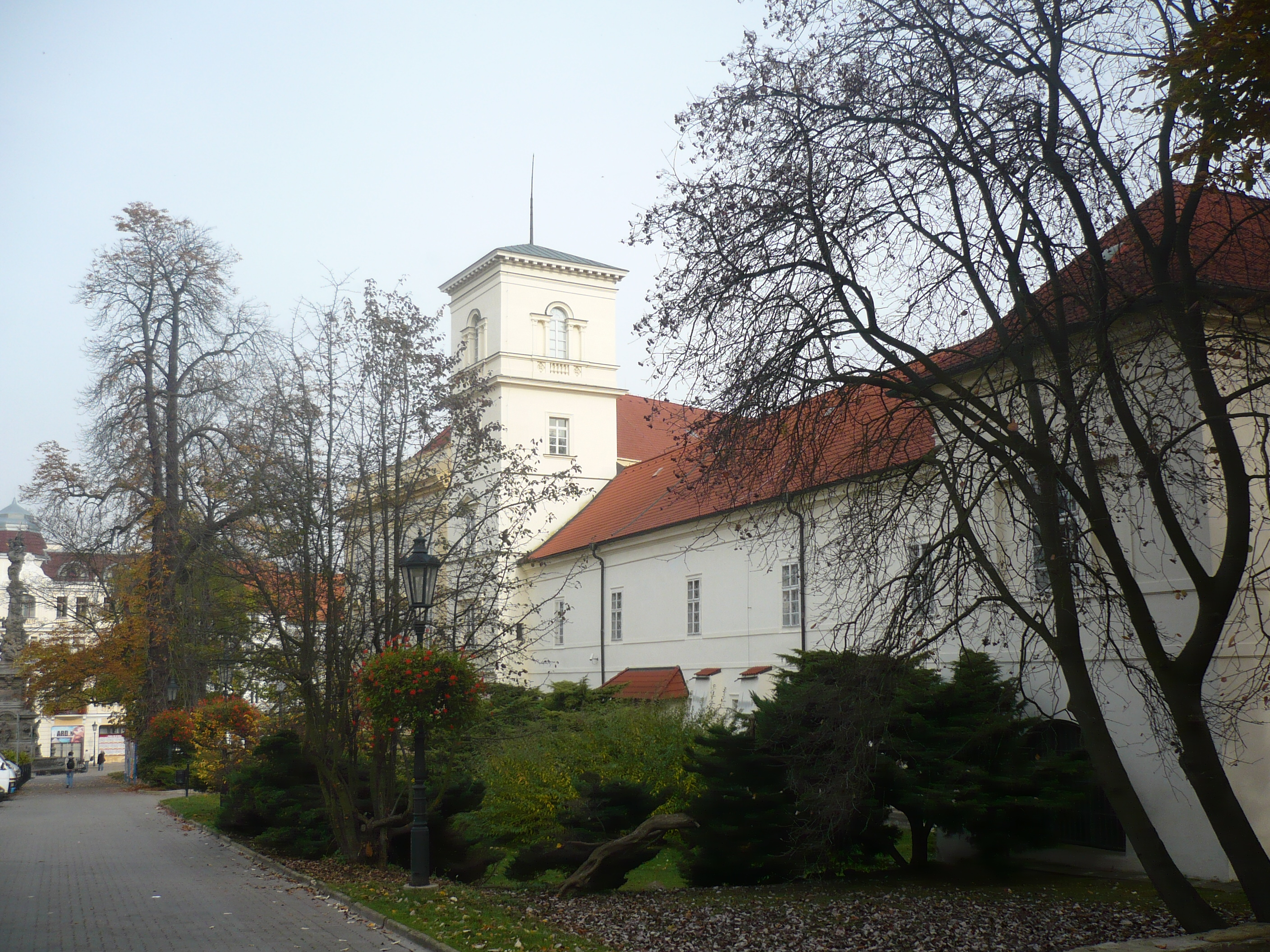 Château in Teplice, Czech Republic